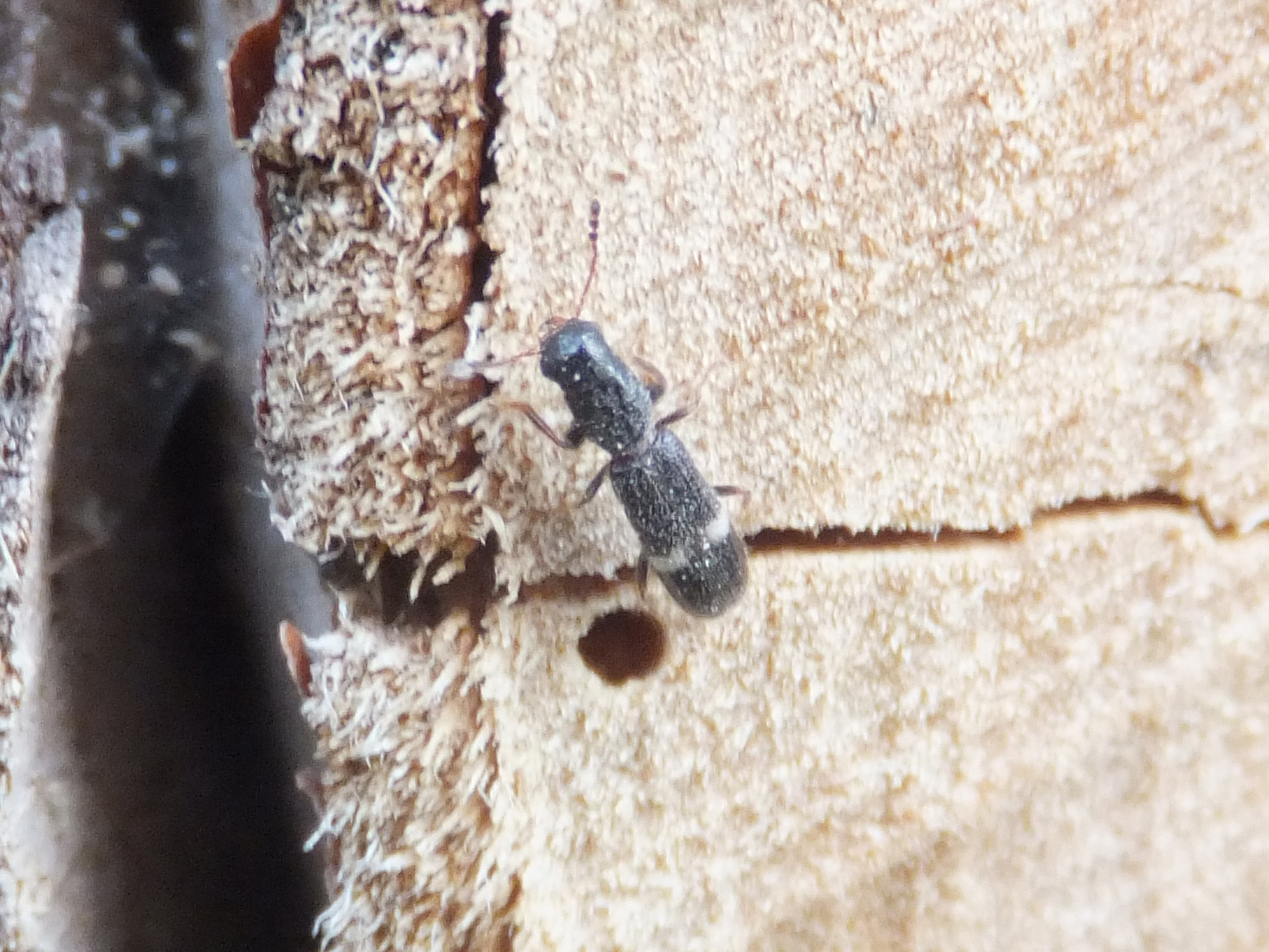 Tarsostenus univittatus photographed in Piazzo (Segonzano, Italy)